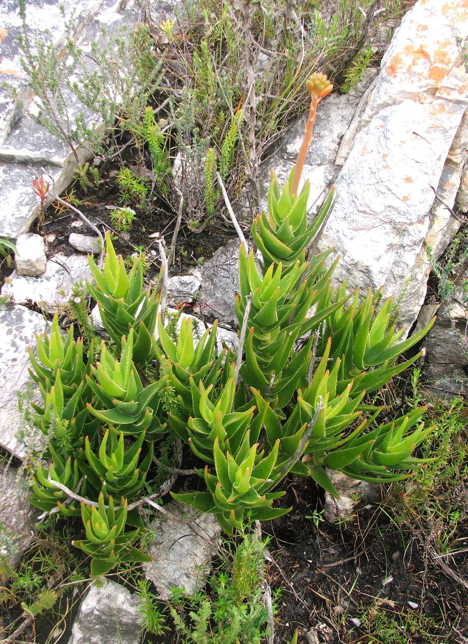 Aloe juddii. The endangered Koudeberg Aloe. Cape Agulhas. South Africa.